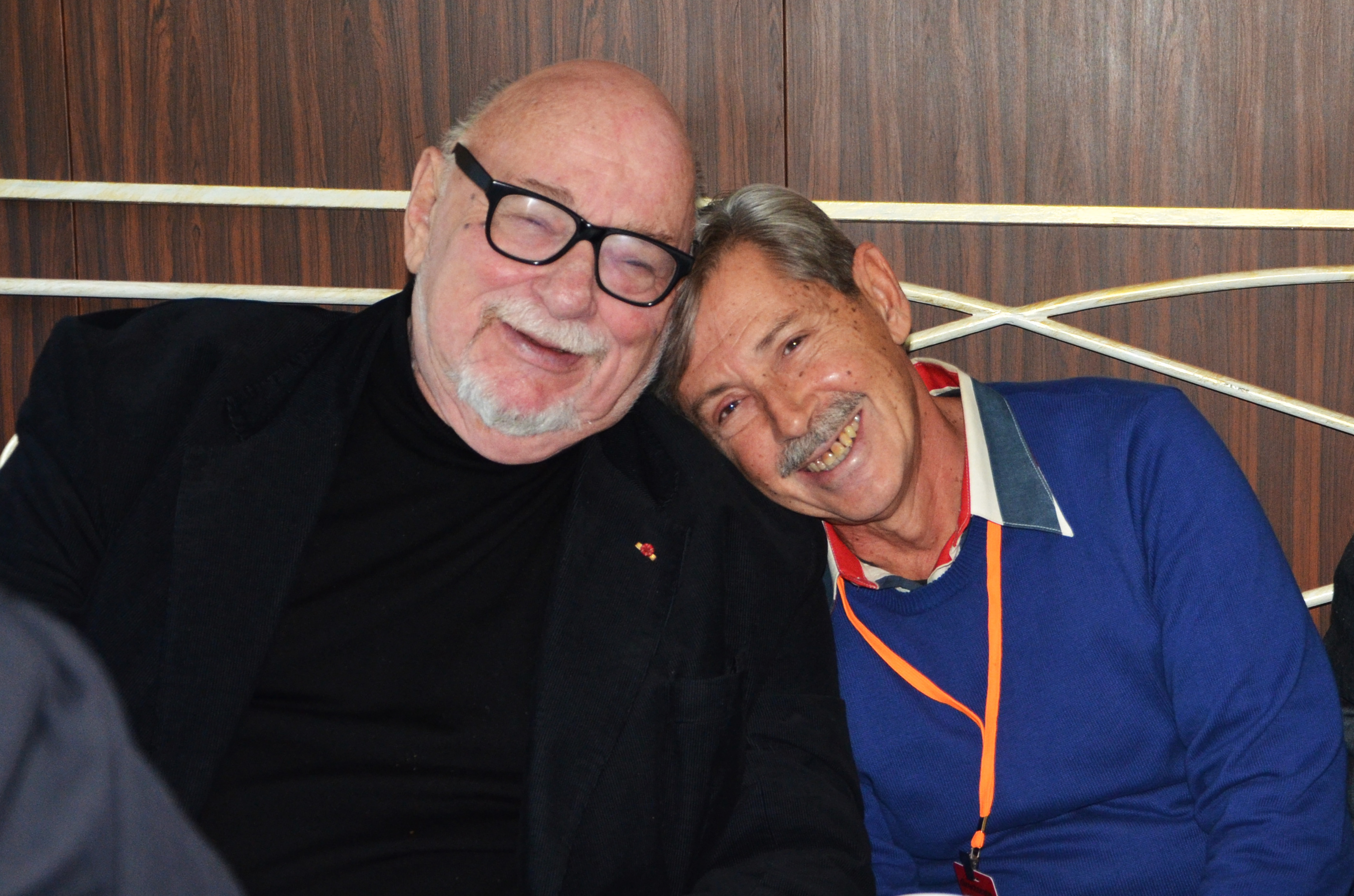 Molodist-41